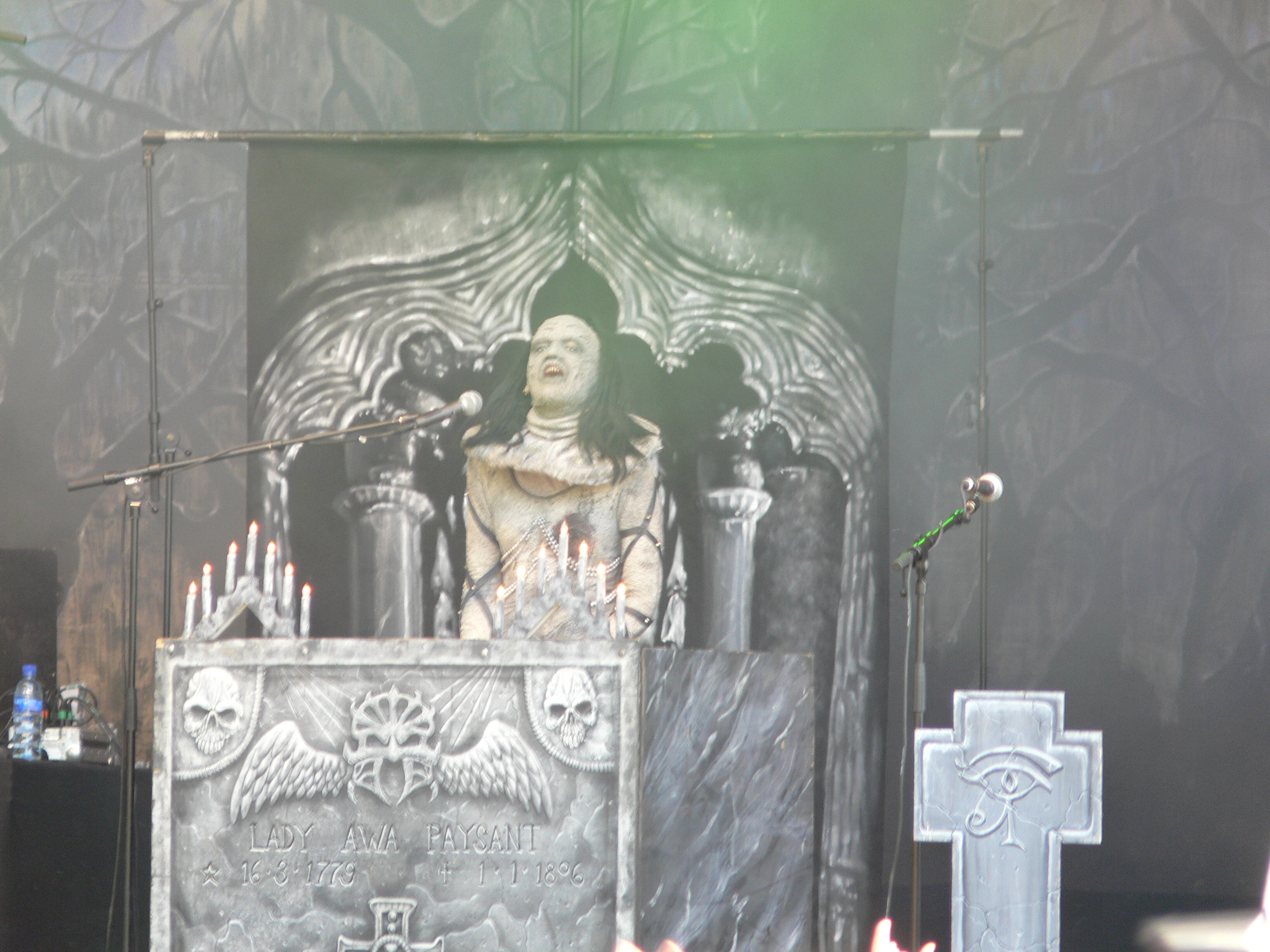 Awa, the keyboard player of the Finnish heavy metal band Lordi, in "Heinolassa Jyrää" -concert in Heinola Finland.